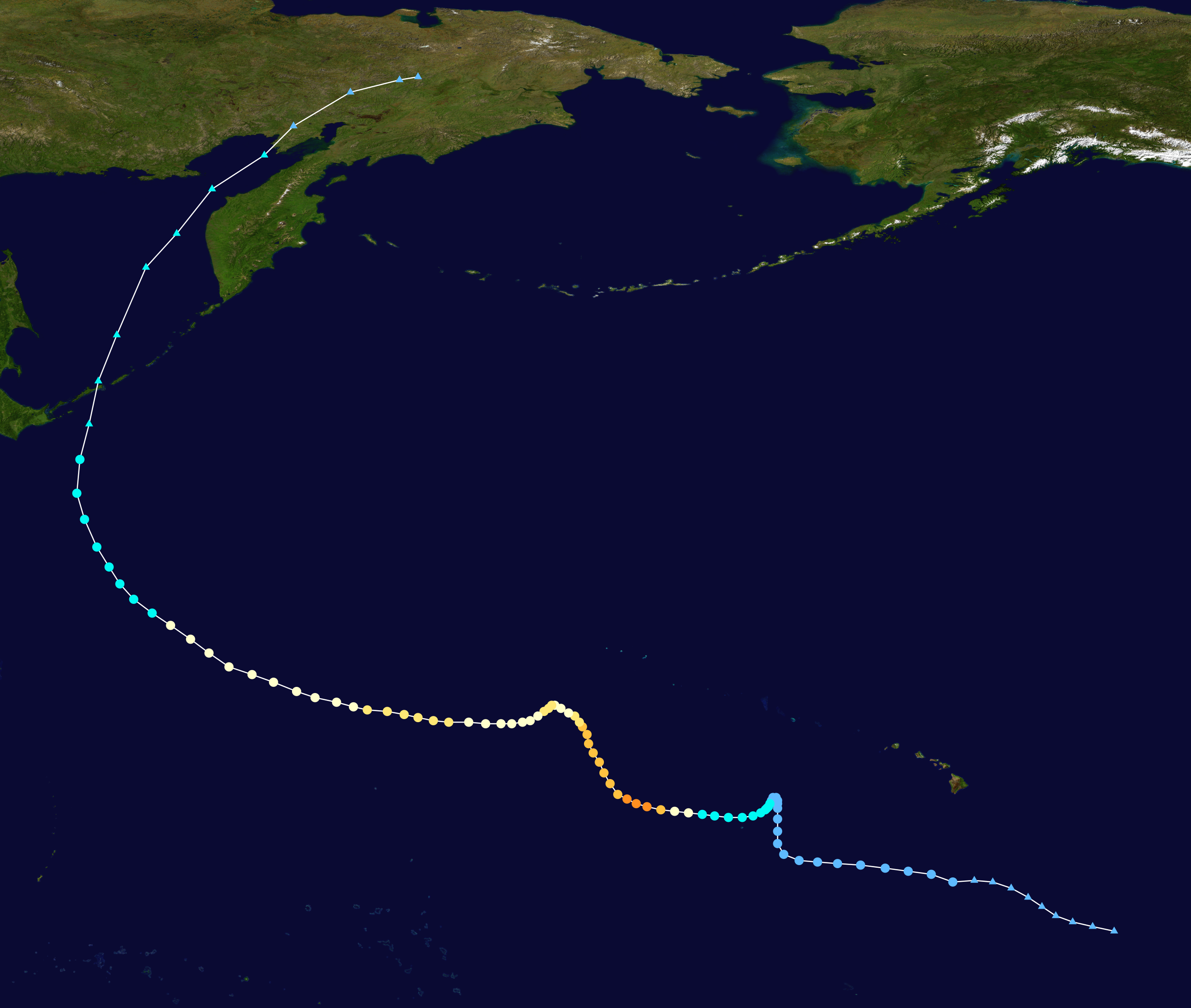 Track map of Hurricane/Typhoon Kilo of the 2015 Pacific hurricane season and the 2015 Pacific typhoon season. The points show the location of the storm at 6-hour intervals. The colour represents the storm's maximum sustained wind speeds as classified in the Saffir–Simpson scale (see below), and the shape of the data points represent the nature of the storm, according to the legend below. Saffir–Simpson scale Tropical depression≤38 mph≤62 km/h Category 3111–129 mph178–208 km/h Tropical storm39–73 mph63–118 km/h Category 4130–156 mph209–251 km/h Category 174–95 mph119–153 km/h Category 5≥157 mph≥252 km/h Category 296–110 mph154–177 km/h Unknown Storm type Tropical cyclone Subtropical cyclone Extratropical cyclone / Remnant low / Tropical disturbance / Monsoon depression